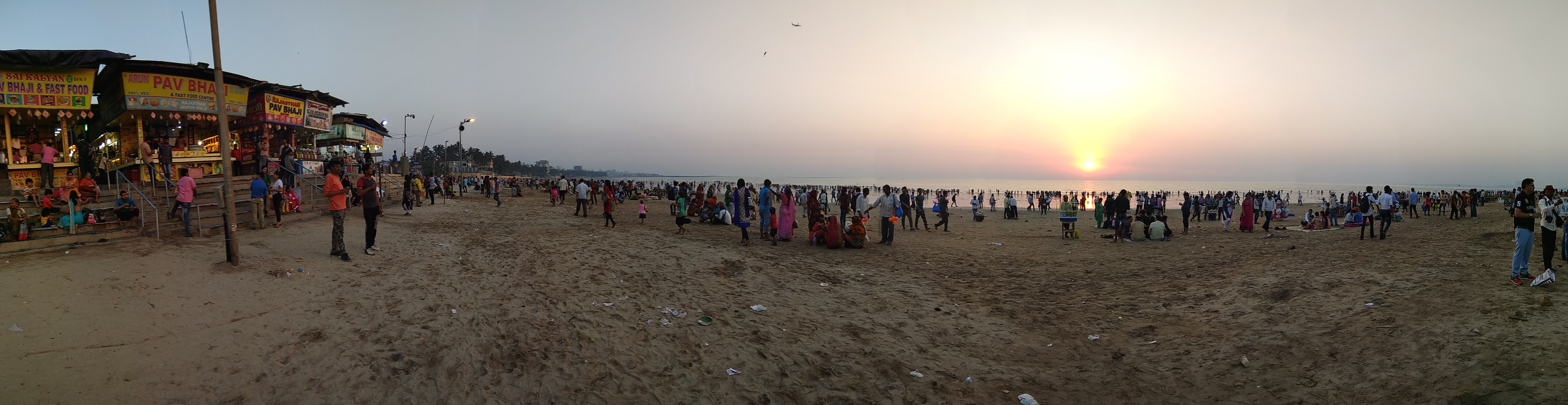 Juhu beach sun set view